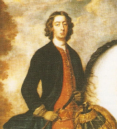 The picture appears in brochure by C. Hoare & Co. The picture is over 100 years old, Henry Hoare having died in 1785, has been extensively reproduced and is in the public domain.